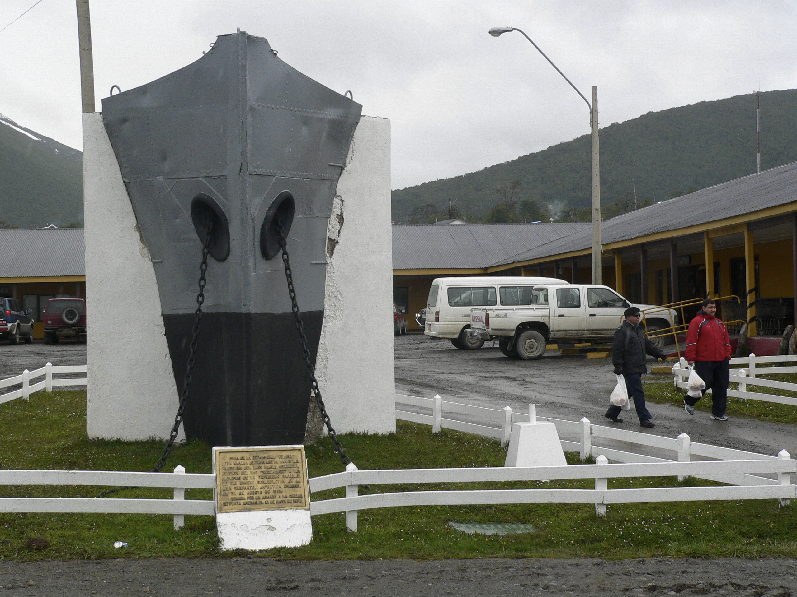 Monument in Puerto Williams for the Rescue of the Tripulation of the Endurance